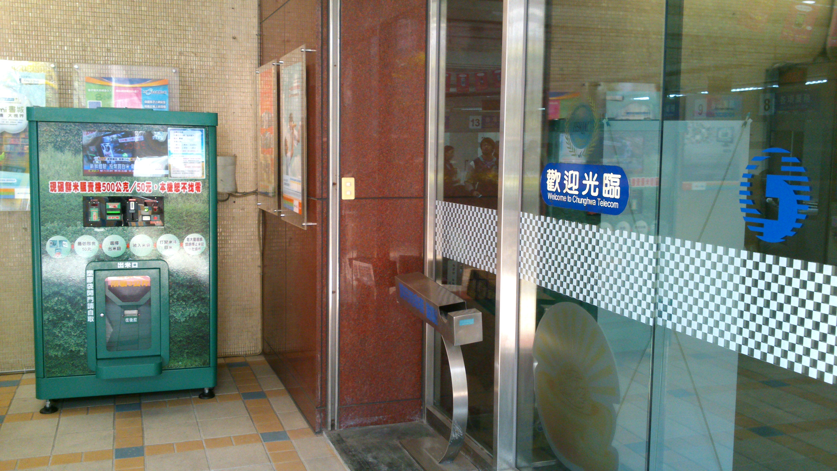 riceatm in CHT